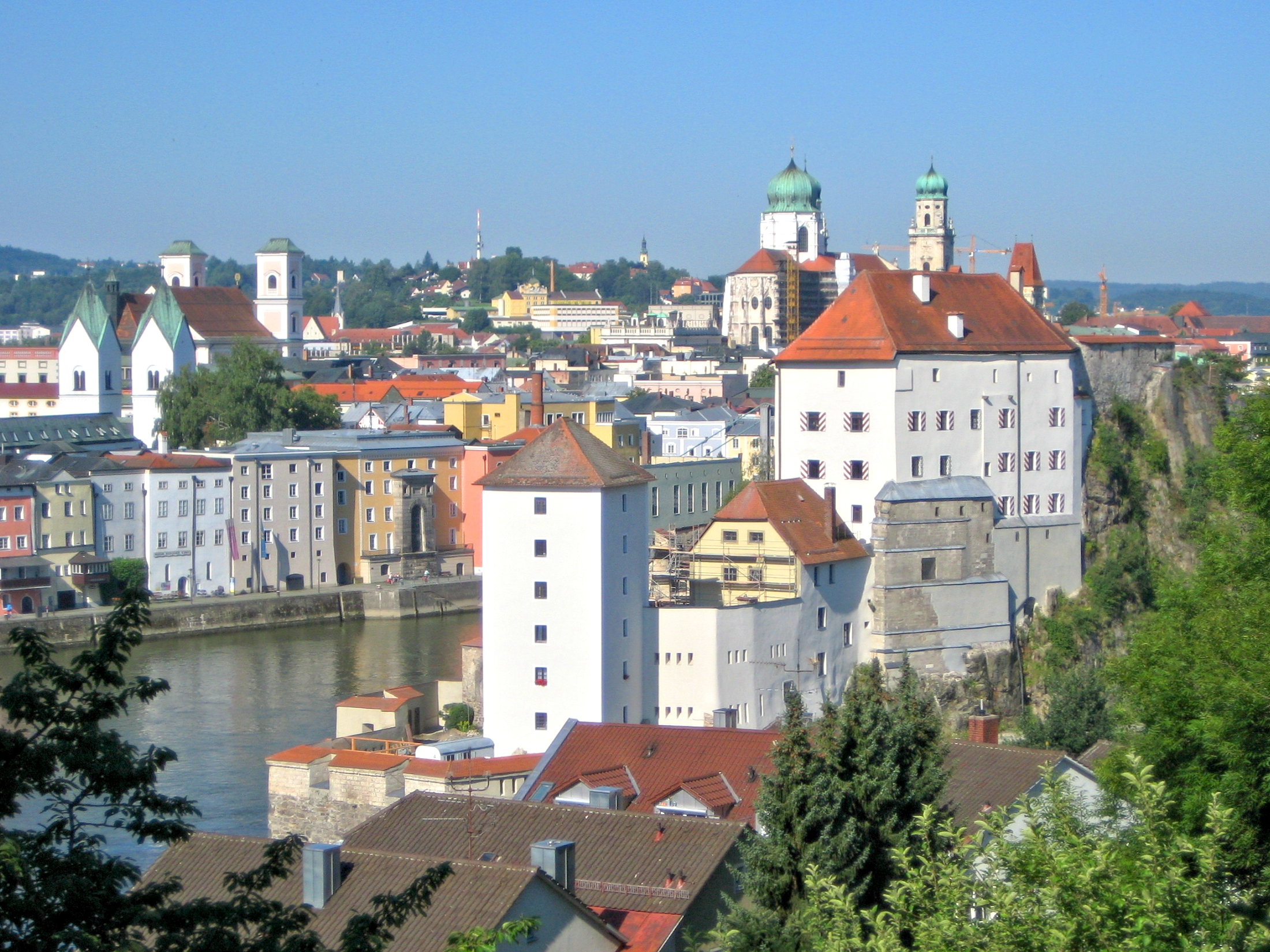 Passau, Altstadt, Veste Niederhaus